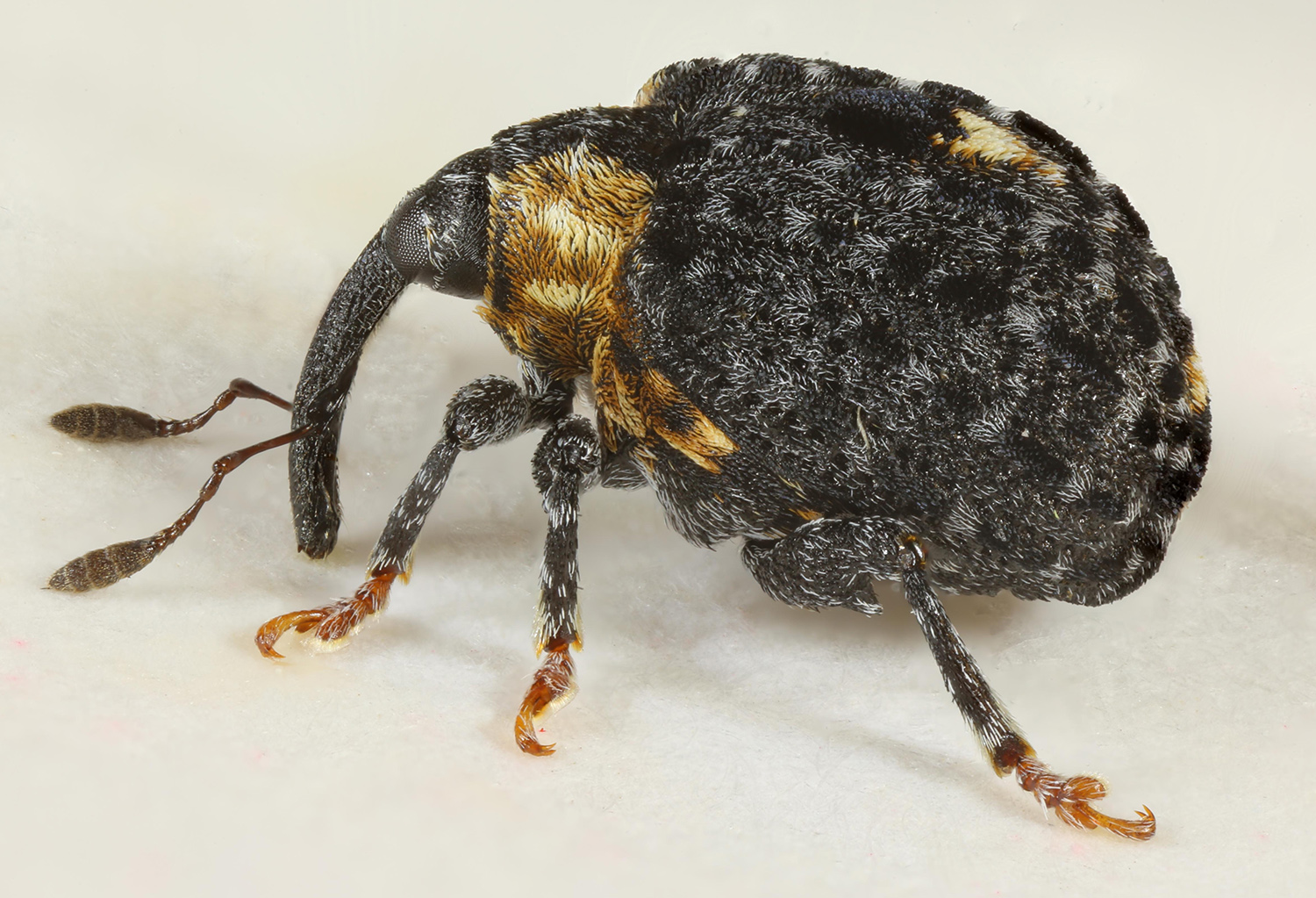 Cionus tuberculosus, Sontley, North Wales, Aug 2015